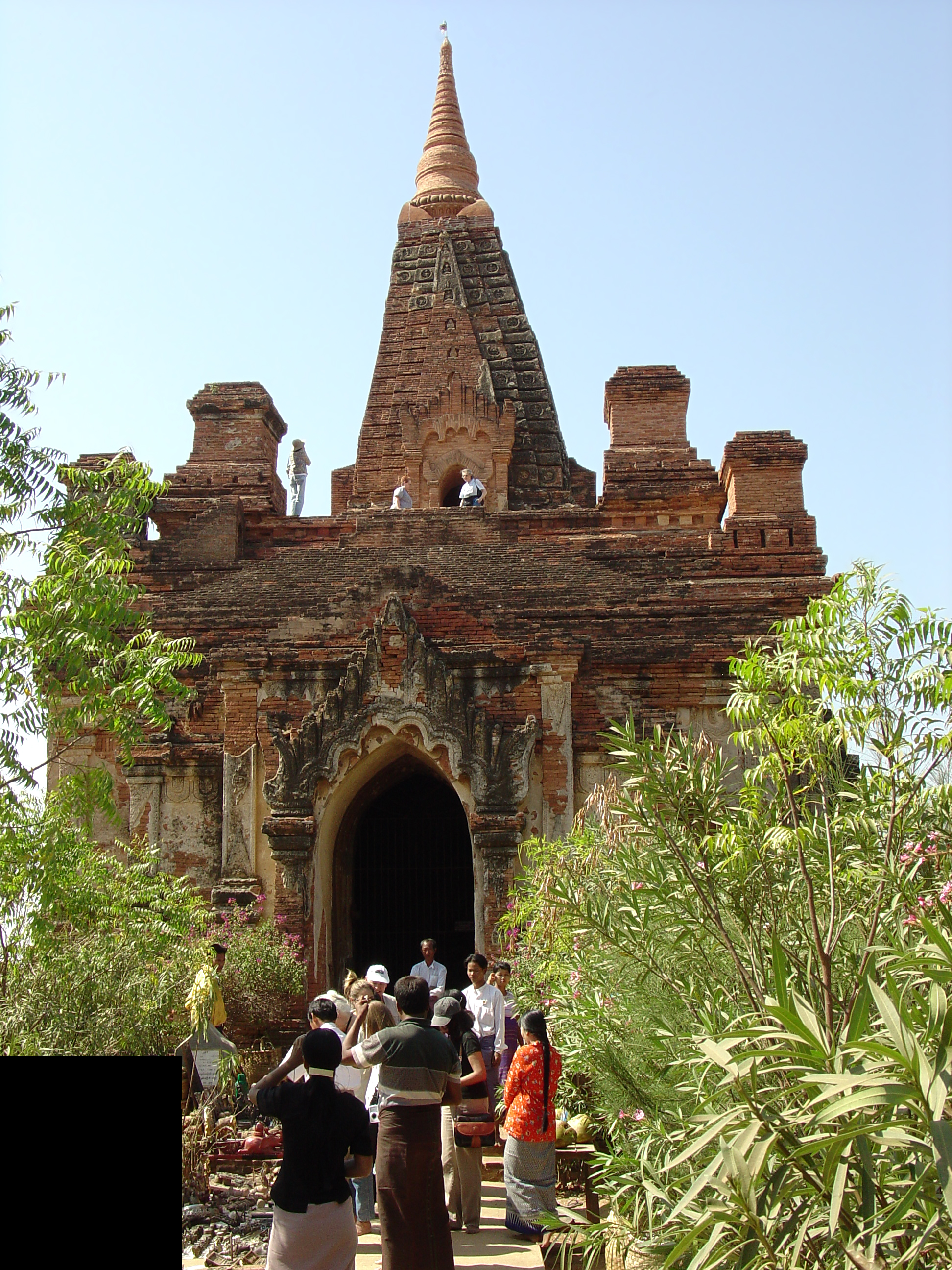 The Gubyaukgyi in Wetkyi-in (there is another temple named Gubyaukgyi in Myinkaba) was built on two levels. Its tower, of pyramidal South Indian type, is similar to the Mahabodhi in Pagan; both temples are modeled on the Mahabodhi in Bodh Gaya, India.